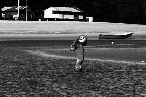 River Arm Between the village and the princess's beach.